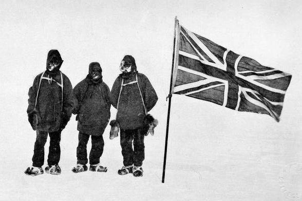 Farthest South. Jameson Adams, Frank Wild and Ernest Shackleton (f.l.t.r.) at 88° 23′ S, 162° E